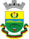 Coat of arms of the city of Pinheiro Machado, Rio Grande do Sul, Brazil.